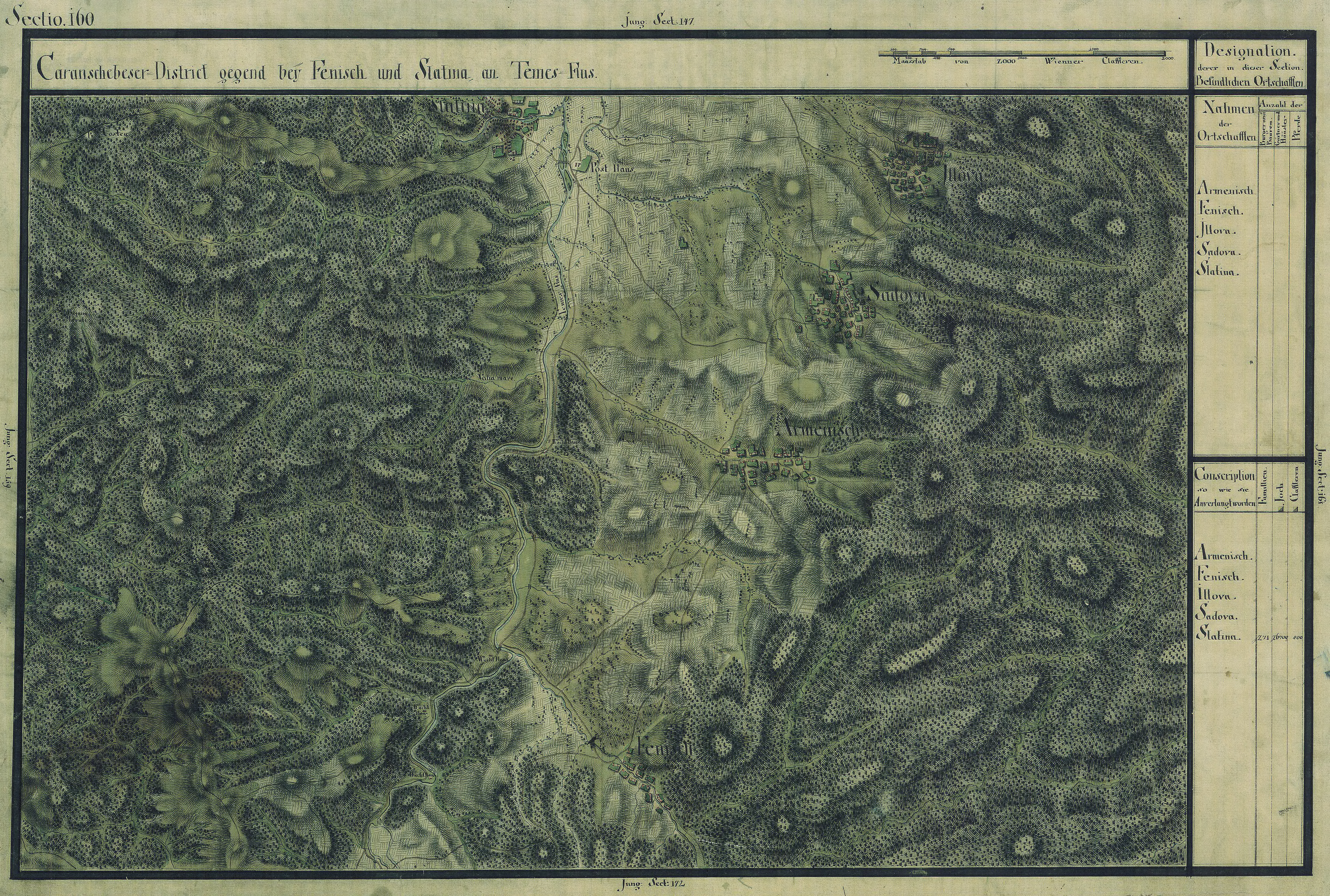 The Banat region in the cadastral maps: Josephinische Landesaufnahme, 1769-72. Josephinische Landaufnahme pg160